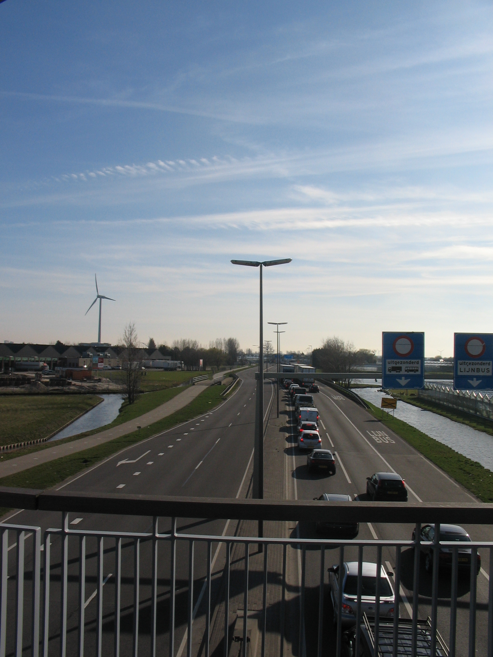 Traffic congestion on the N213 near the junction at Westerlee